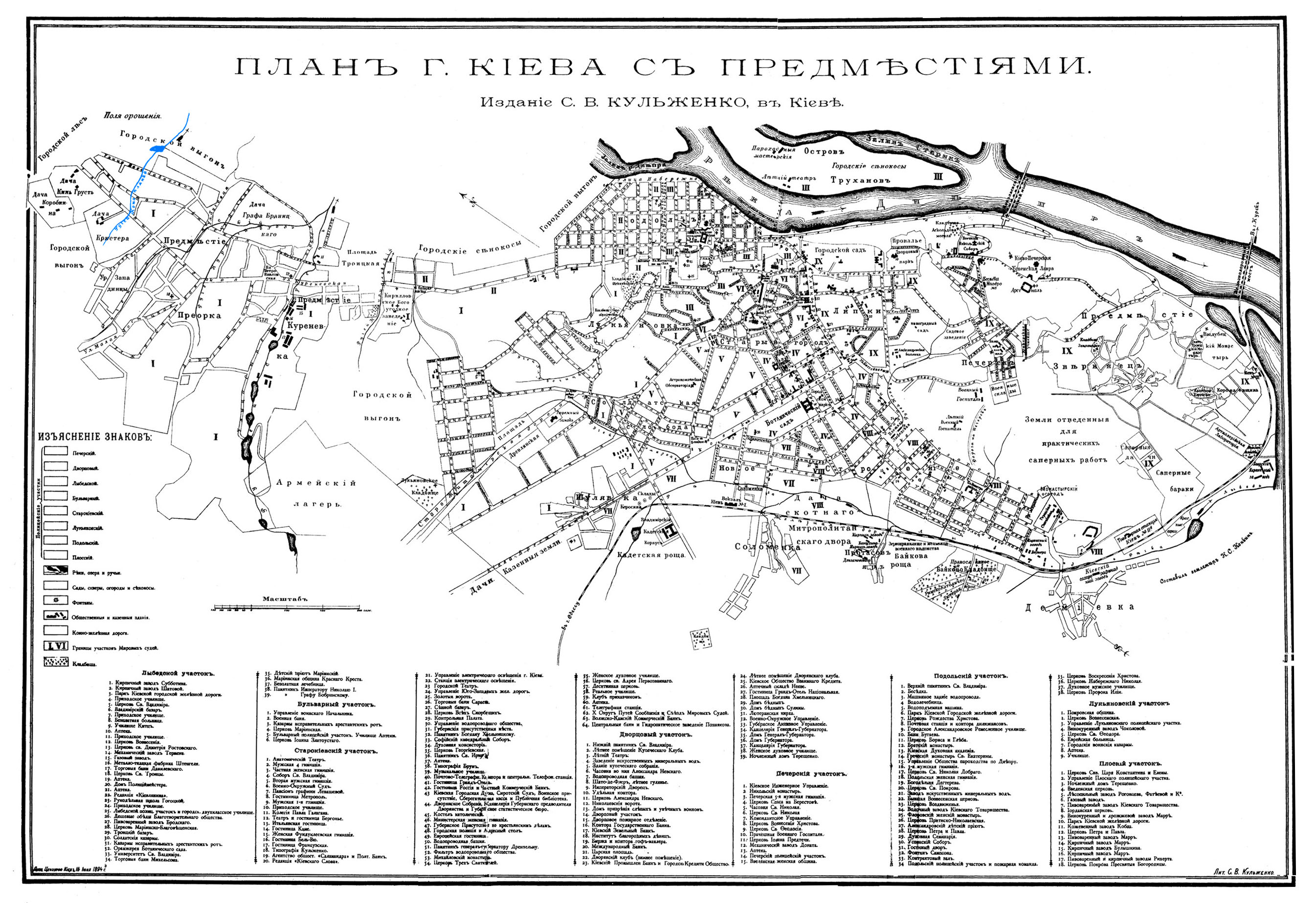 map of 1894 publishing house Kulzhenko